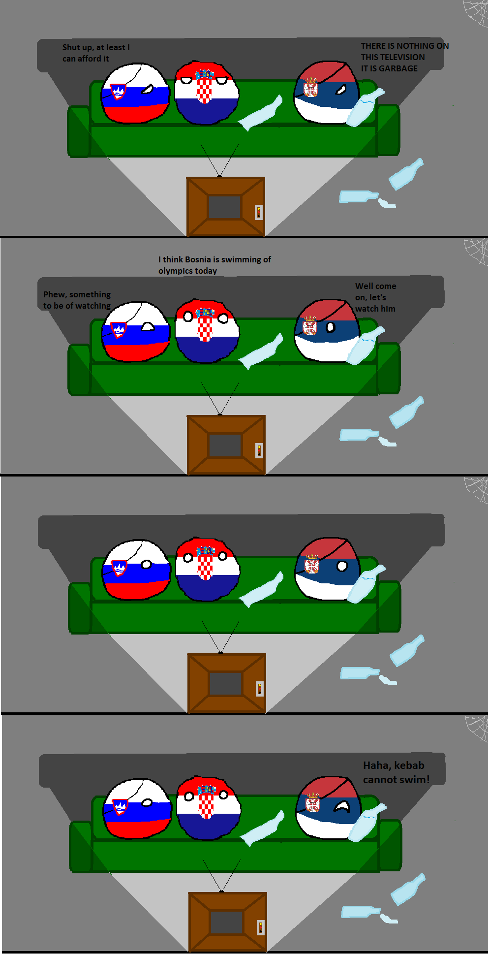 Polandball comic with more Balkan shenanigans